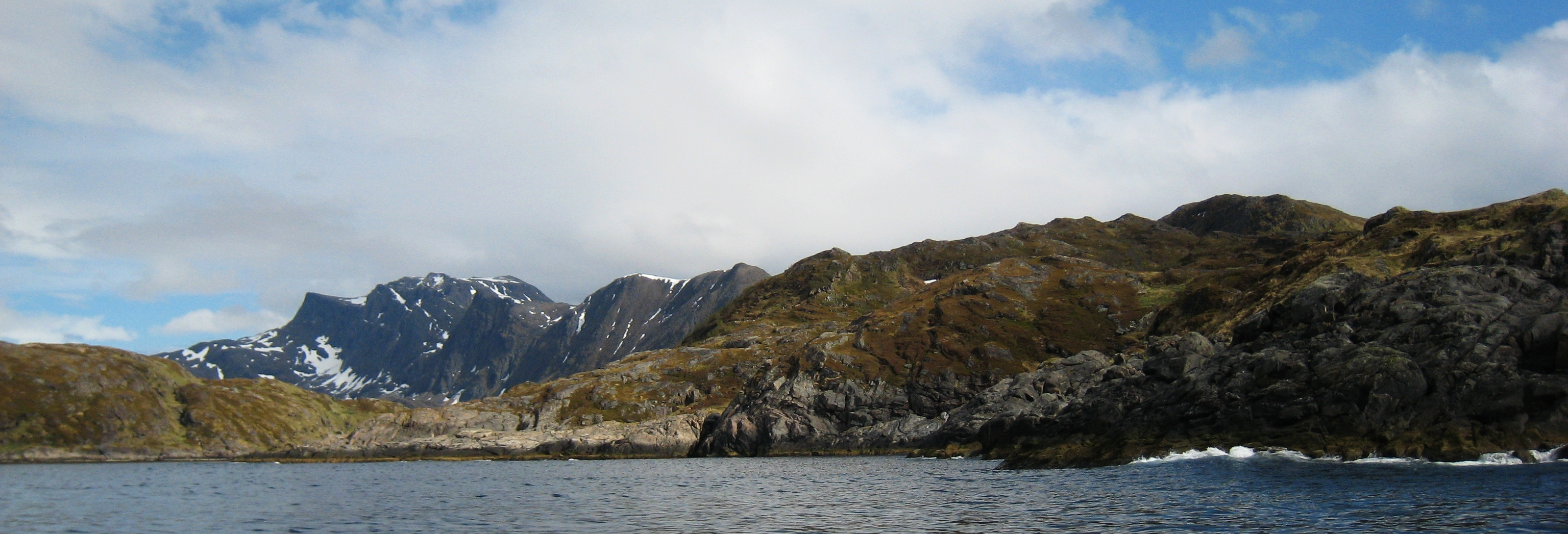 Rocky beaches of Seiland near Bårdfjord, Norway